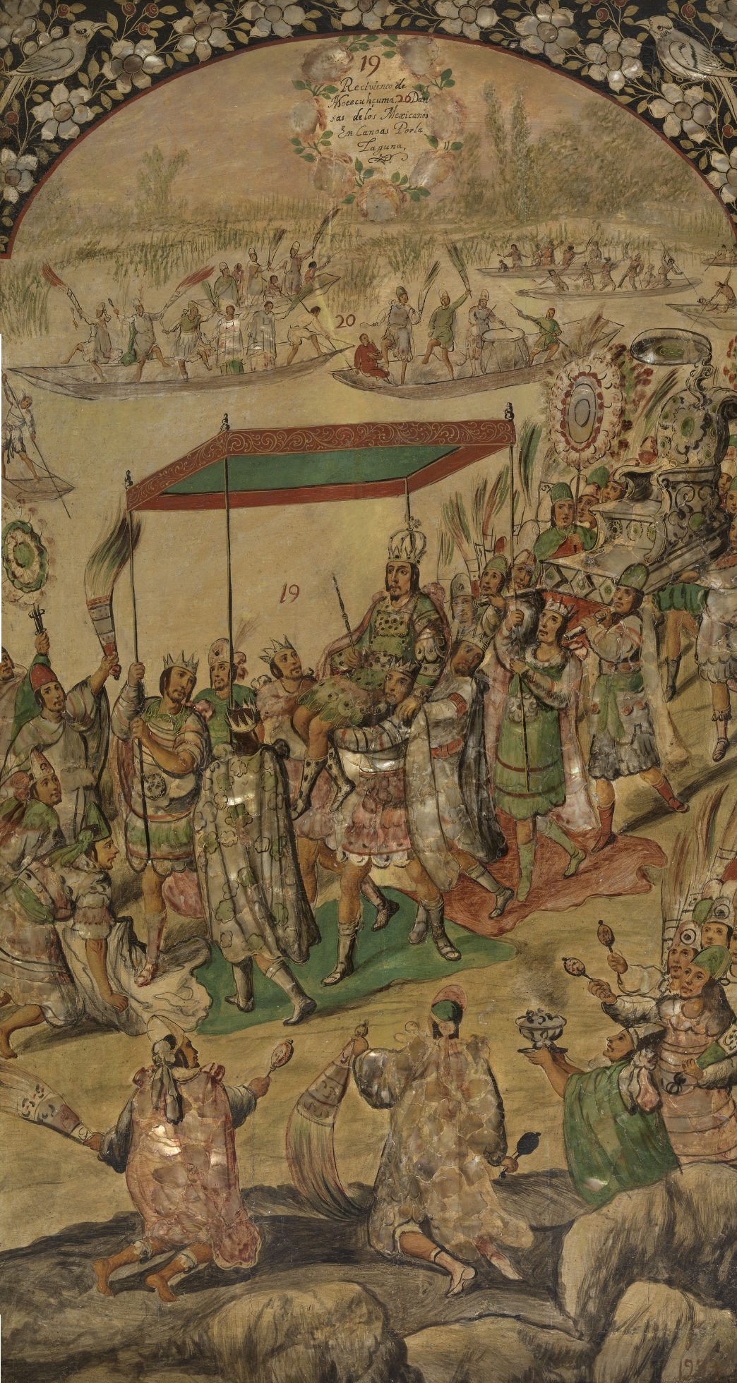 Tenth table about the Conquest of Mexico painted by the new Spanish painters Juan González and Miguel González. This table represents the moment in which the huey tlatoani of the Mexica Empire Moctezuma II received the Spanish captain Hernán Cortés upon his arrival in the city of Tenochtitlan, in 8 November 1519.